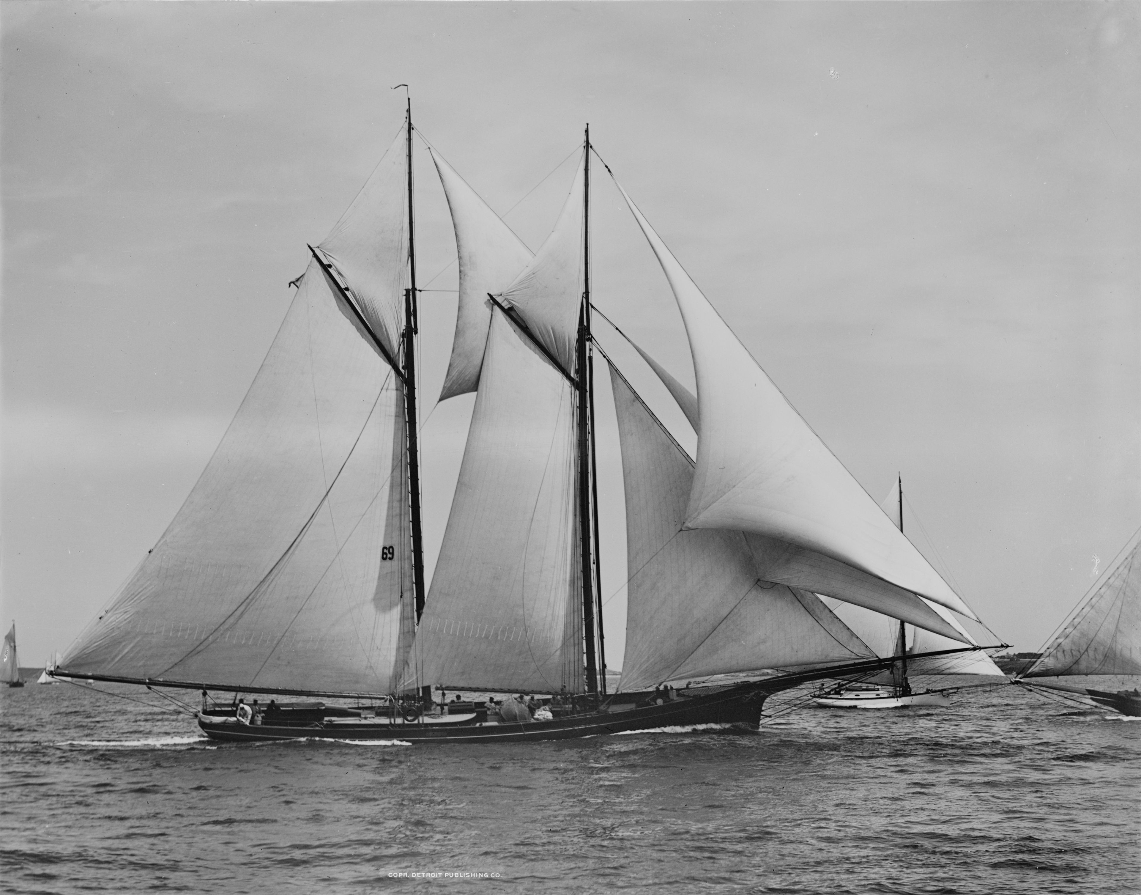 The Hon. Jordan Lawrence Mott, Jr.'s centerboard schooner Magic (formerly Madgie). She was originally a sloop modelled by her first owner Richard Fanning Loper and built in 1857 at the T. Byerly & Son shipyard, PA. Her later owner Franklin Osgood had her entirely rebuilt in 1869 at the David Carll shipyard, NY, prior to her successful defence of the 1870 Queen's Cup. She is pictured here in the 1888 Ogden Goelet cup in Newport, RI. Jacques Taglang (2005-01-27). 1870 - Magic. America's Cup. New York Times - The Volunteer leads